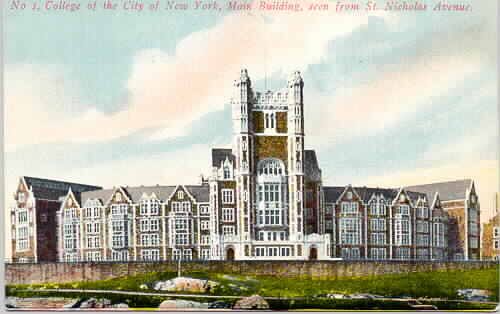 Old photograph from a postcard over 80 years old, at least, showing Shepard Hall at City College of New York. The URL was from CCNY